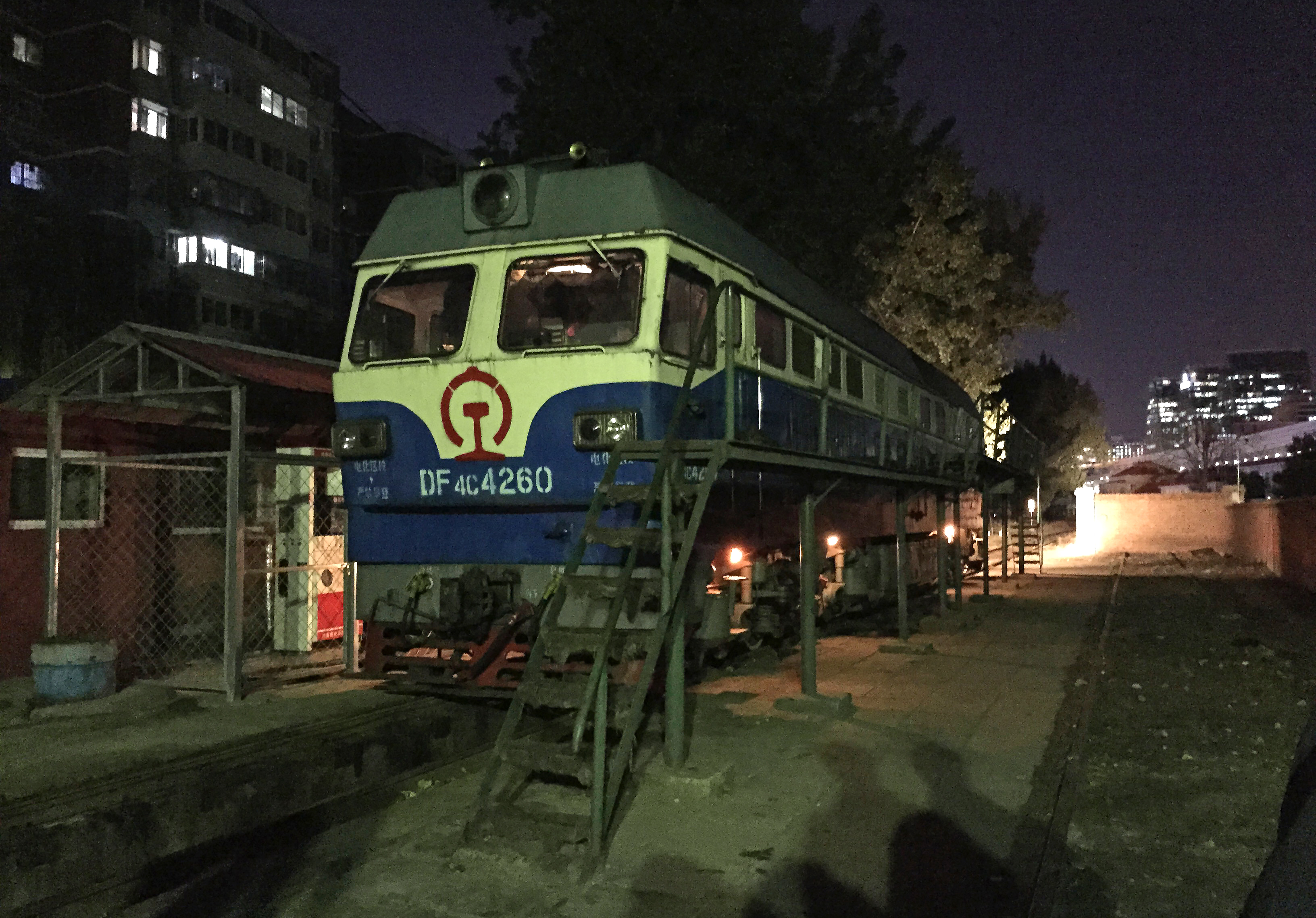 I just have a feeling like the moment when the last CX251 departed from Kai Tak on 5 July 1998, or when Yamaguchi Momoe gently put the microphone down at Budokan on 5 October 1980.